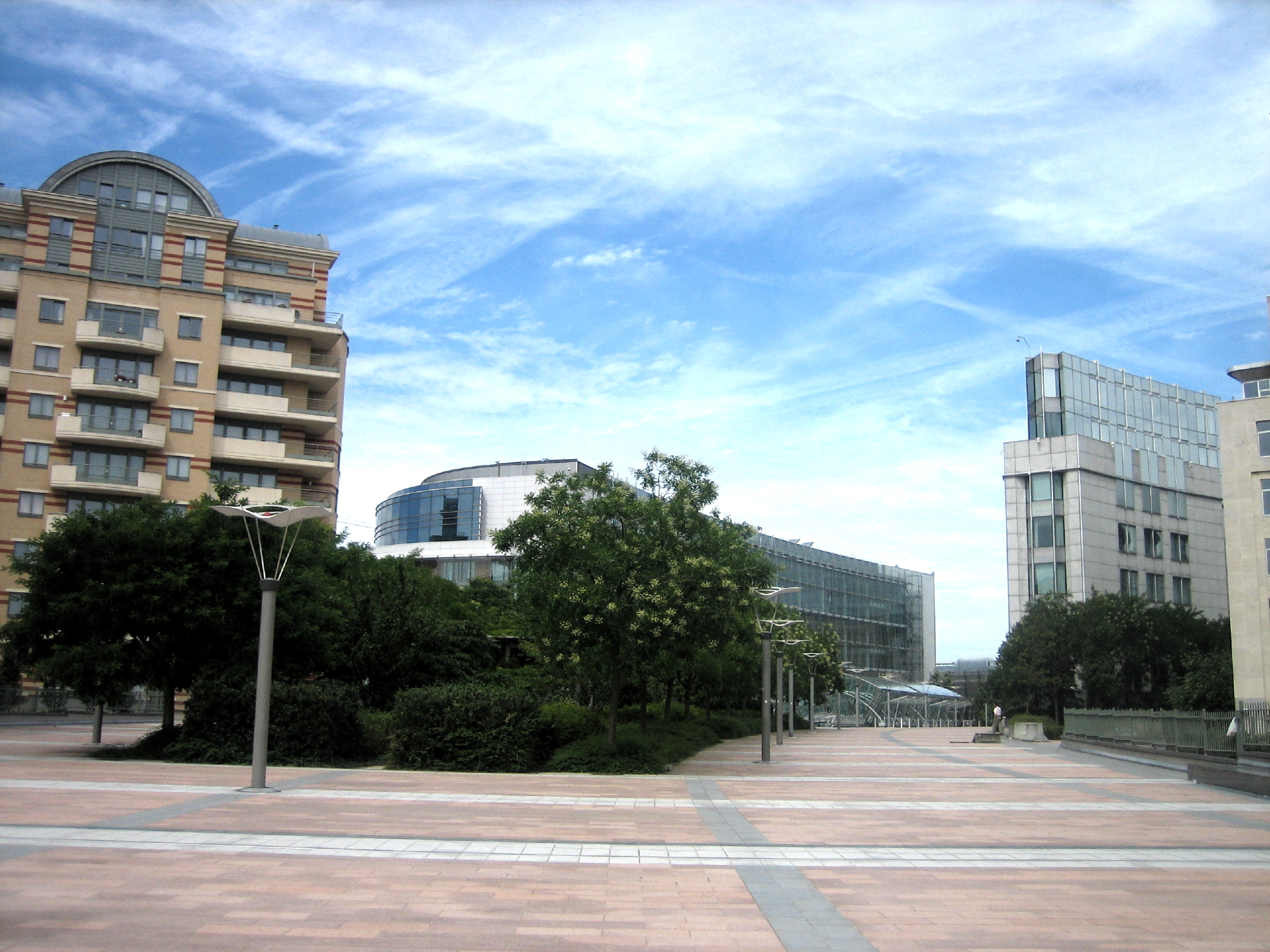 Southern segment (facing north) of the pedestrian pall of the European Parliament